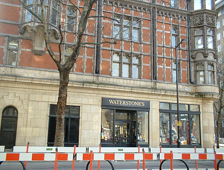 Waterstones on Gower Street, London taken by C Ford, March 04.